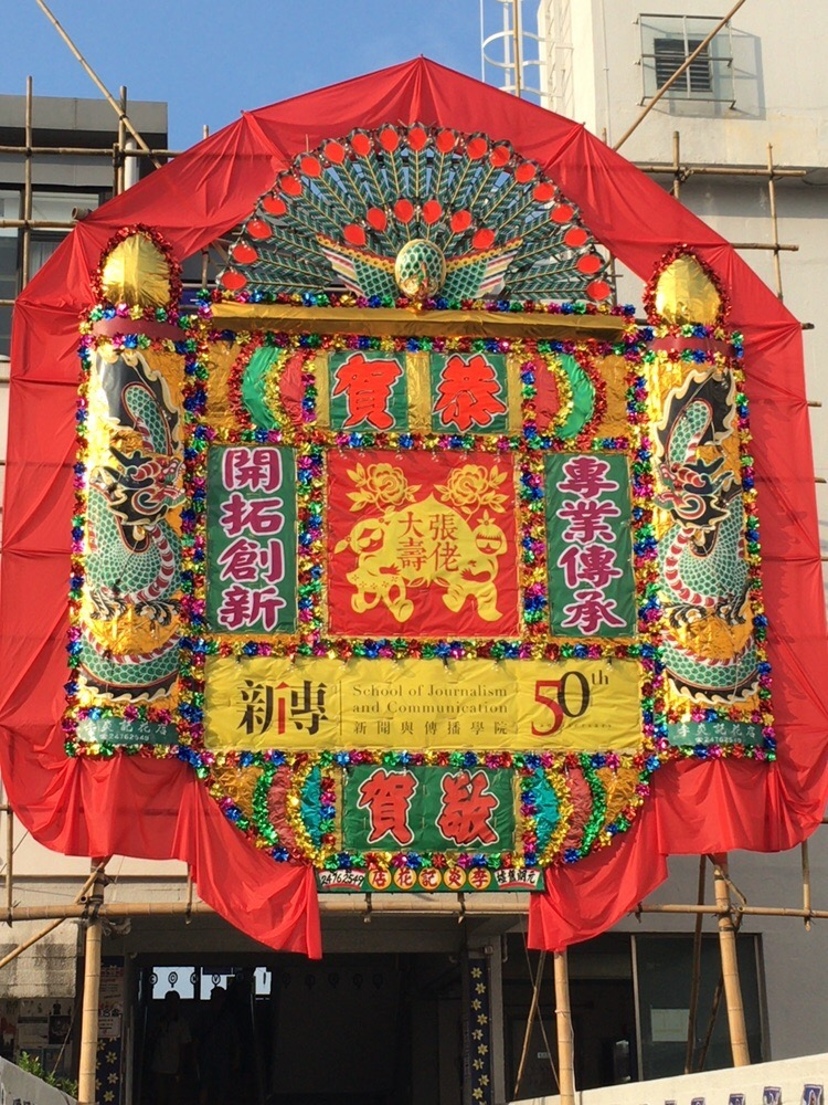 the front of the flower plaque